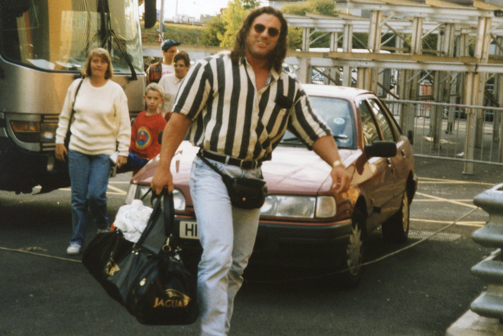 Professional wrestler the British Bulldog